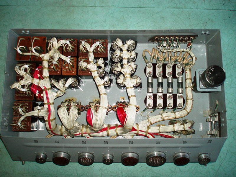 Distribution panel of aircraft electrical wiring system